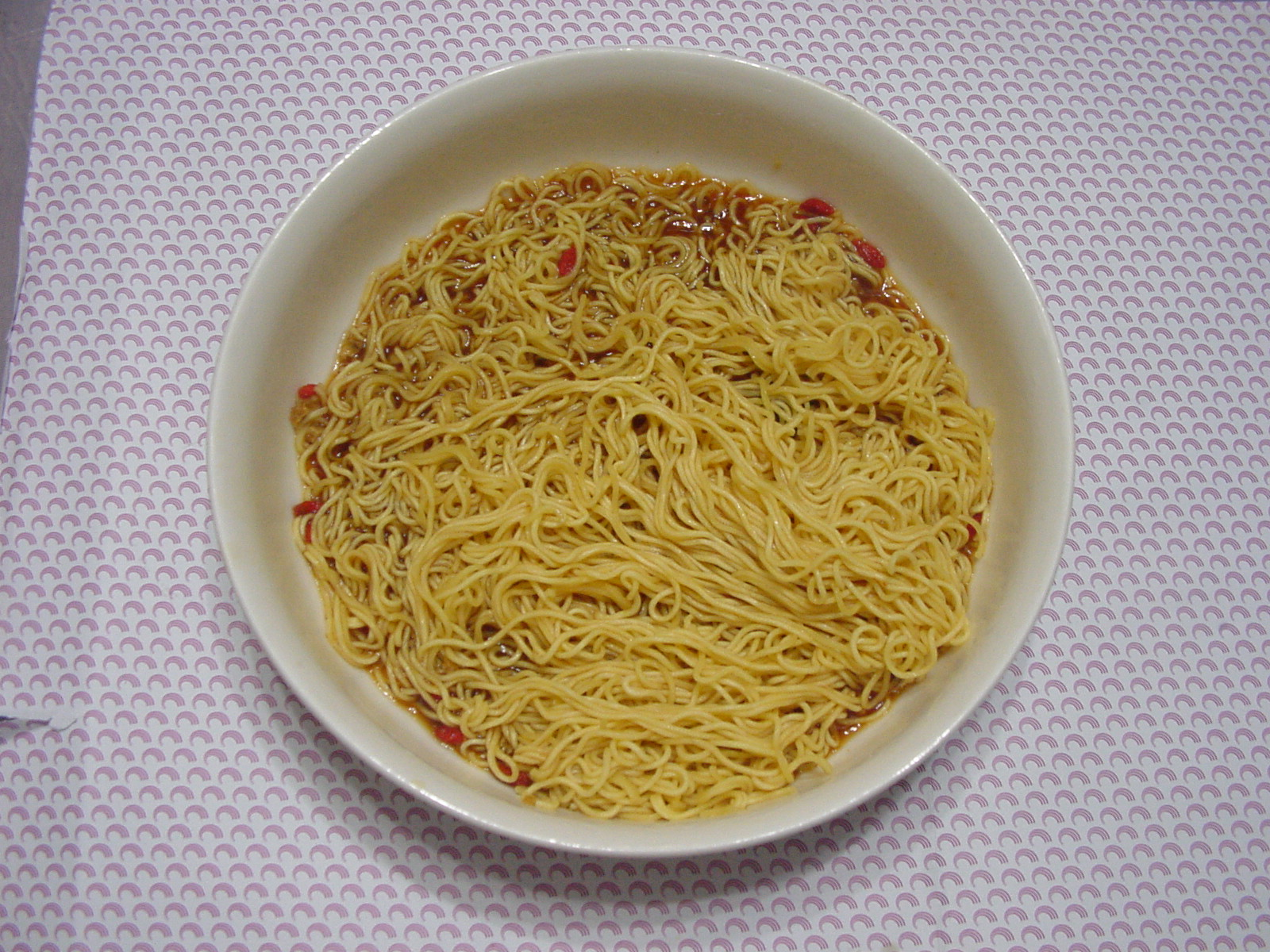 A bowl of Chinese Toon Veggie Noodles (Chinese herbal flavor vegetarian noodles) issued by Wei Chuan Foods.